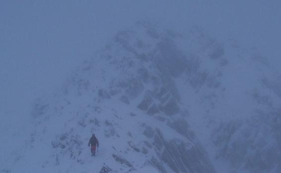 Traversing the summit ridge of The Saddle in winter. Taken by Stuart Westwater 01/07